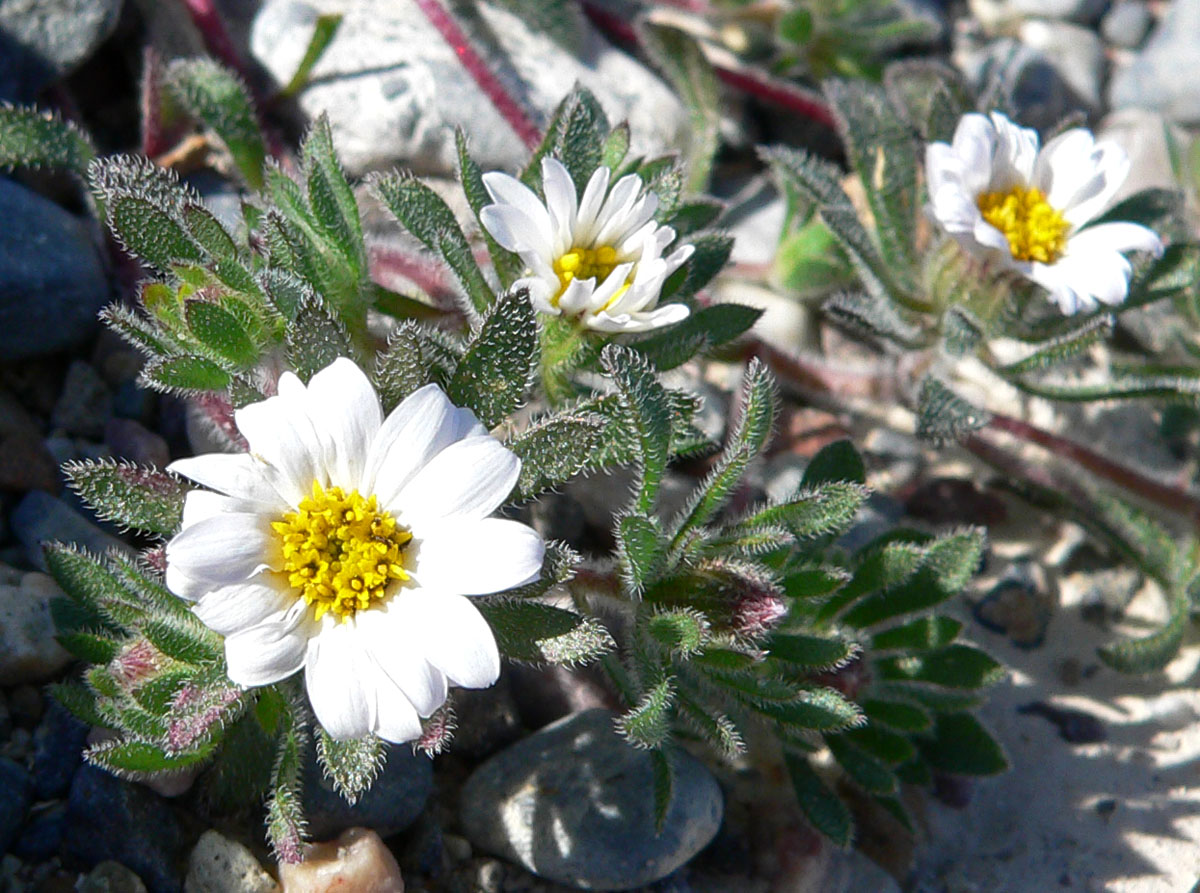 Monoptilon bellioides (or possibly M. bellidiformes) in lower Furnace Creek Wash, Death Valley